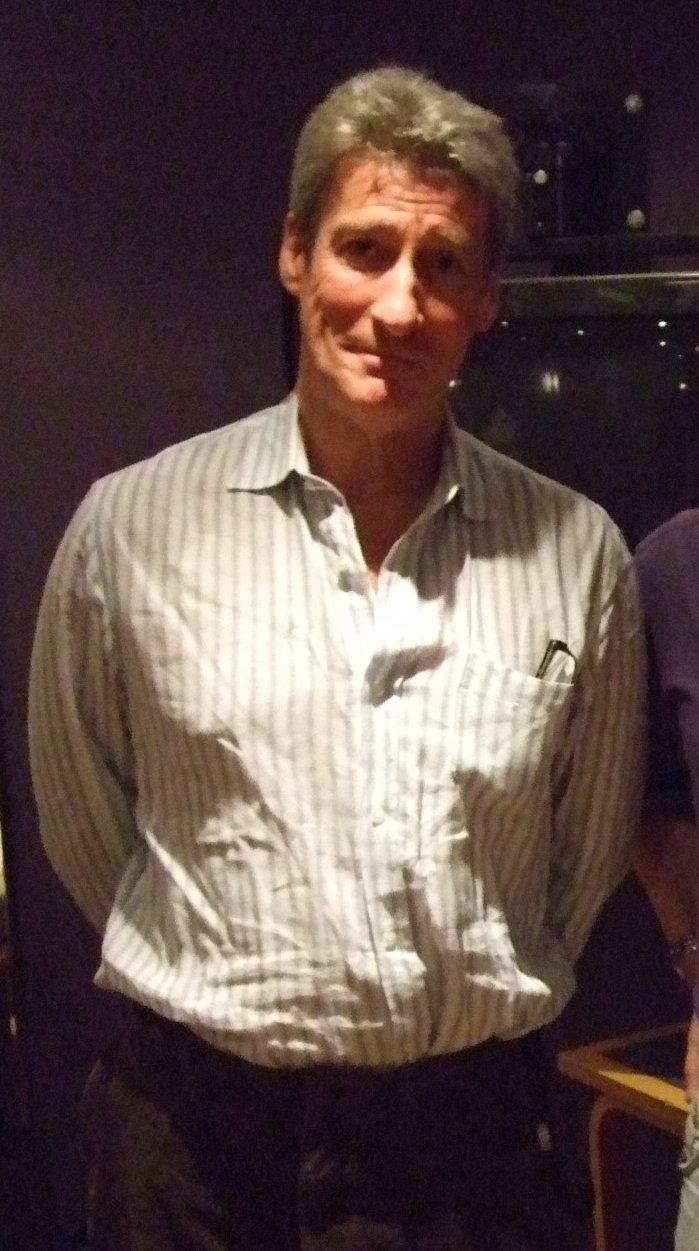 Jeremy Paxman (born 11 May 1950), a British BBC journalist, news and TV presenter and author from England.